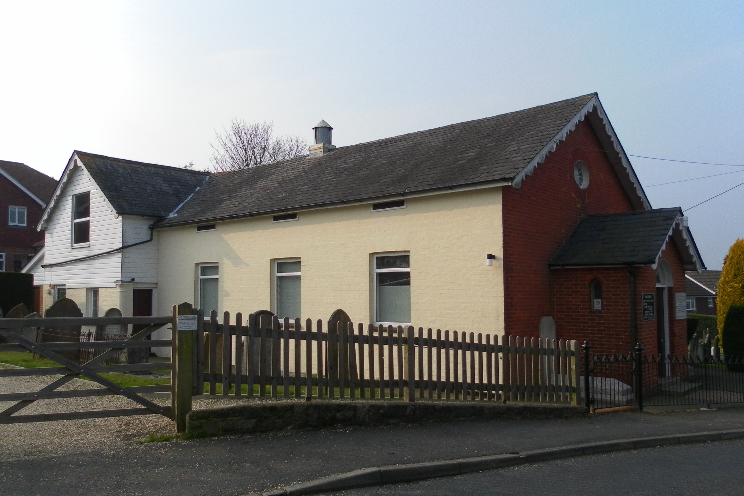 Ebenezer Strict Baptist Chapel, Broad Oak, near Heathfield, Wealden District, East Sussex, England.